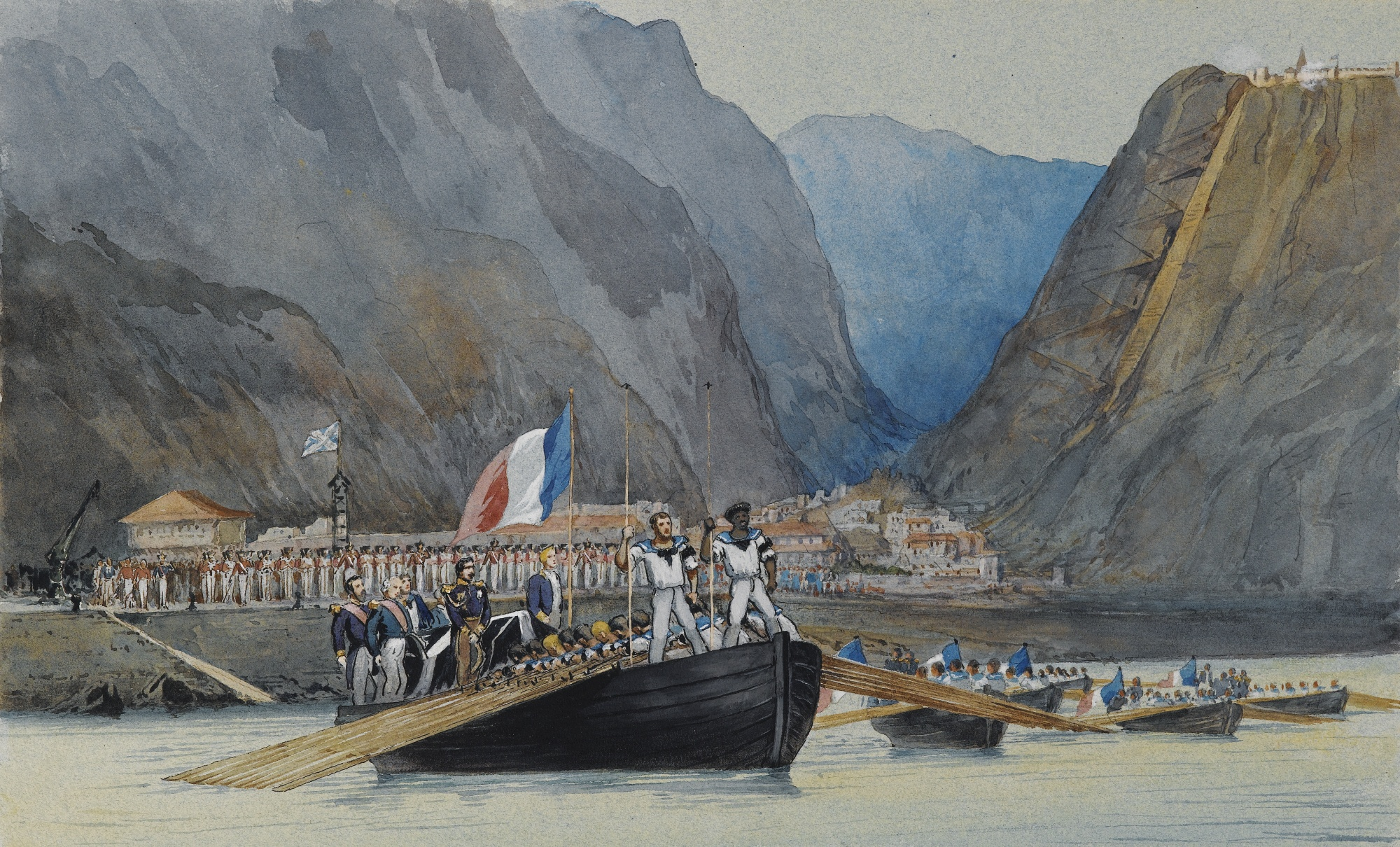 Watercolor by François d'Orléans, prince de Joinville (1818-1900) - Retour des cendres de Napoléon, Sainte Hélène, 1840